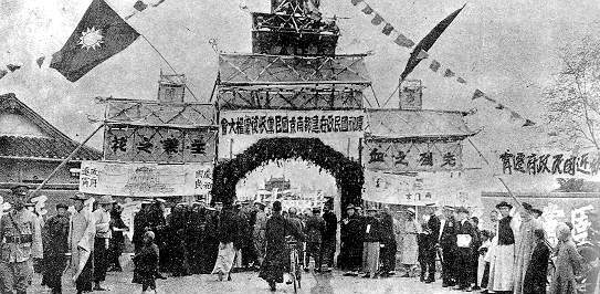 1927.4.18 Nanking Nationalist Government was established, head of government was Chiang Kaishek.